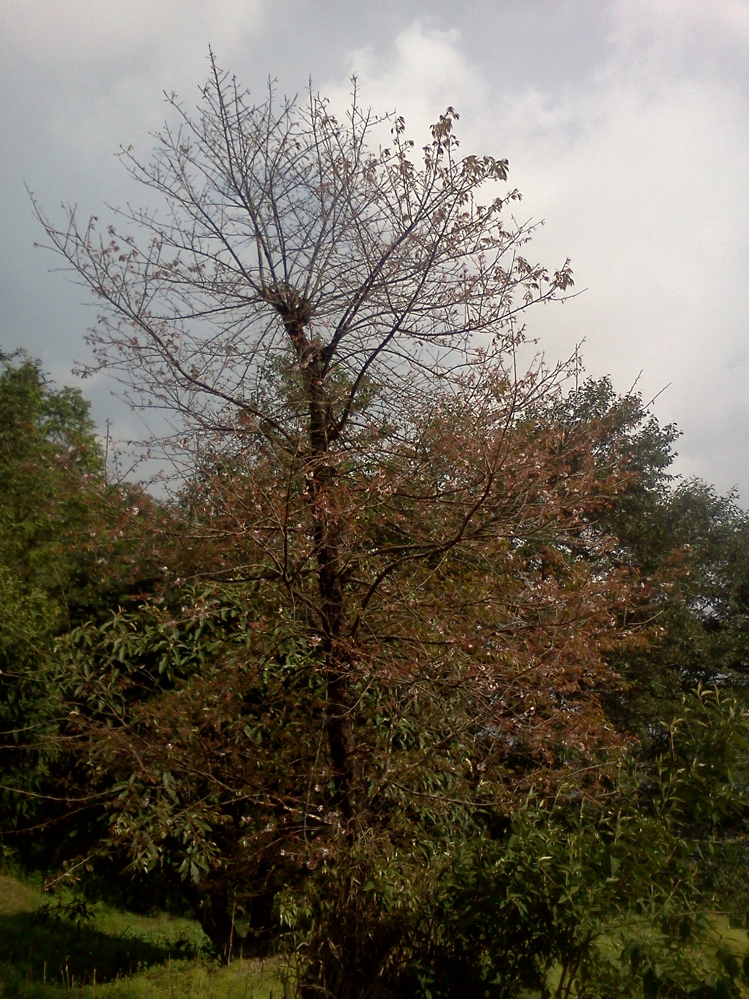 This is a tree which gives pink flower during October-November .